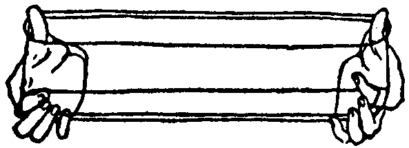 Cat's cradle, candles/soldier's bed